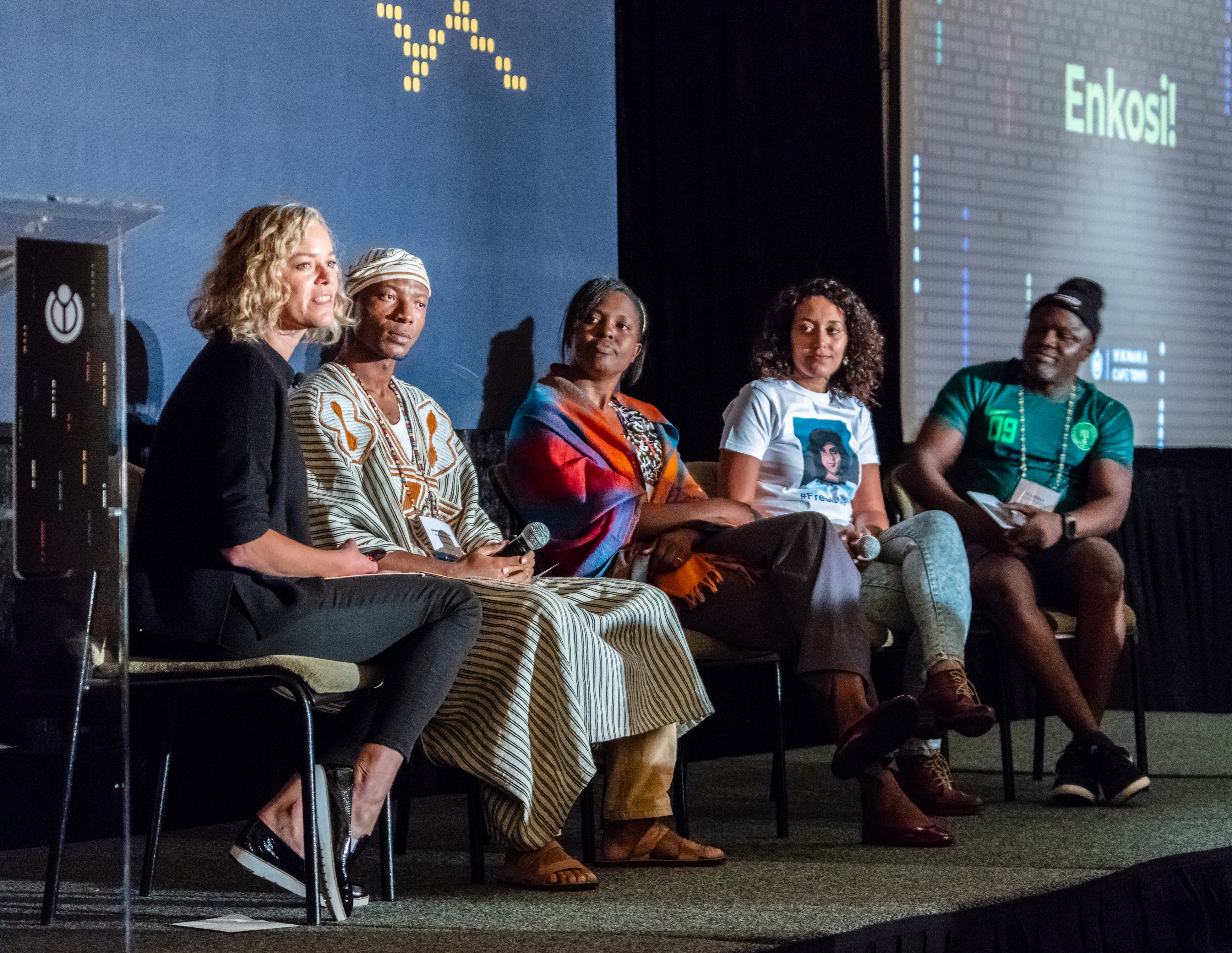 Panelists, Wikimania, Cape Town, South Africa